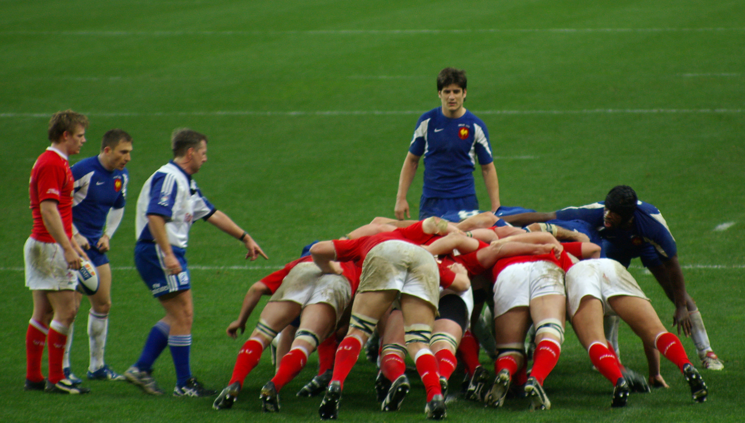 Pictures from the rugby game France vs Wales for 6 Nations 2007 which took place in Stade de France, Paris, 24/02/2007.